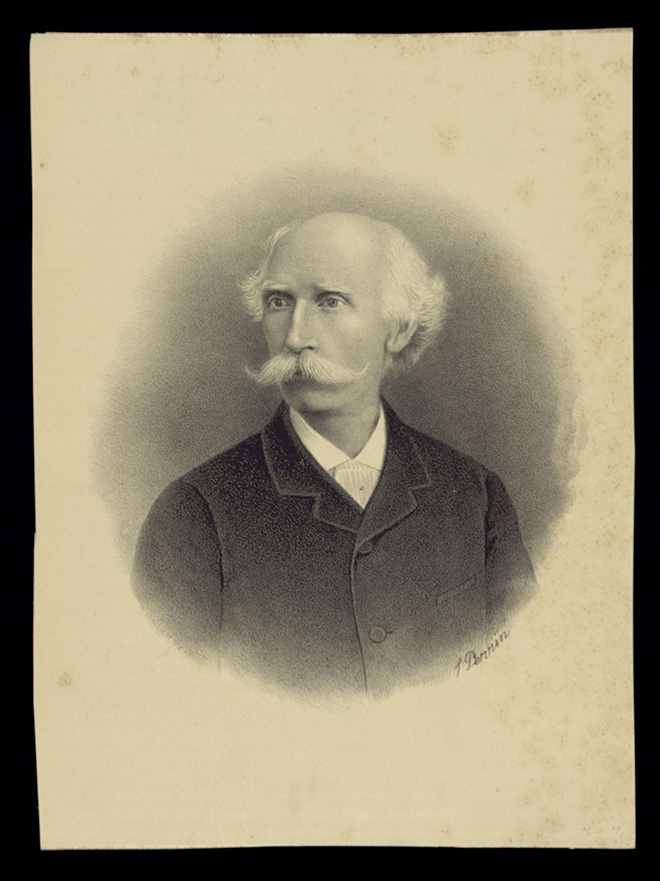 Portrait of Domenico Silveri, composer (1818-1900).